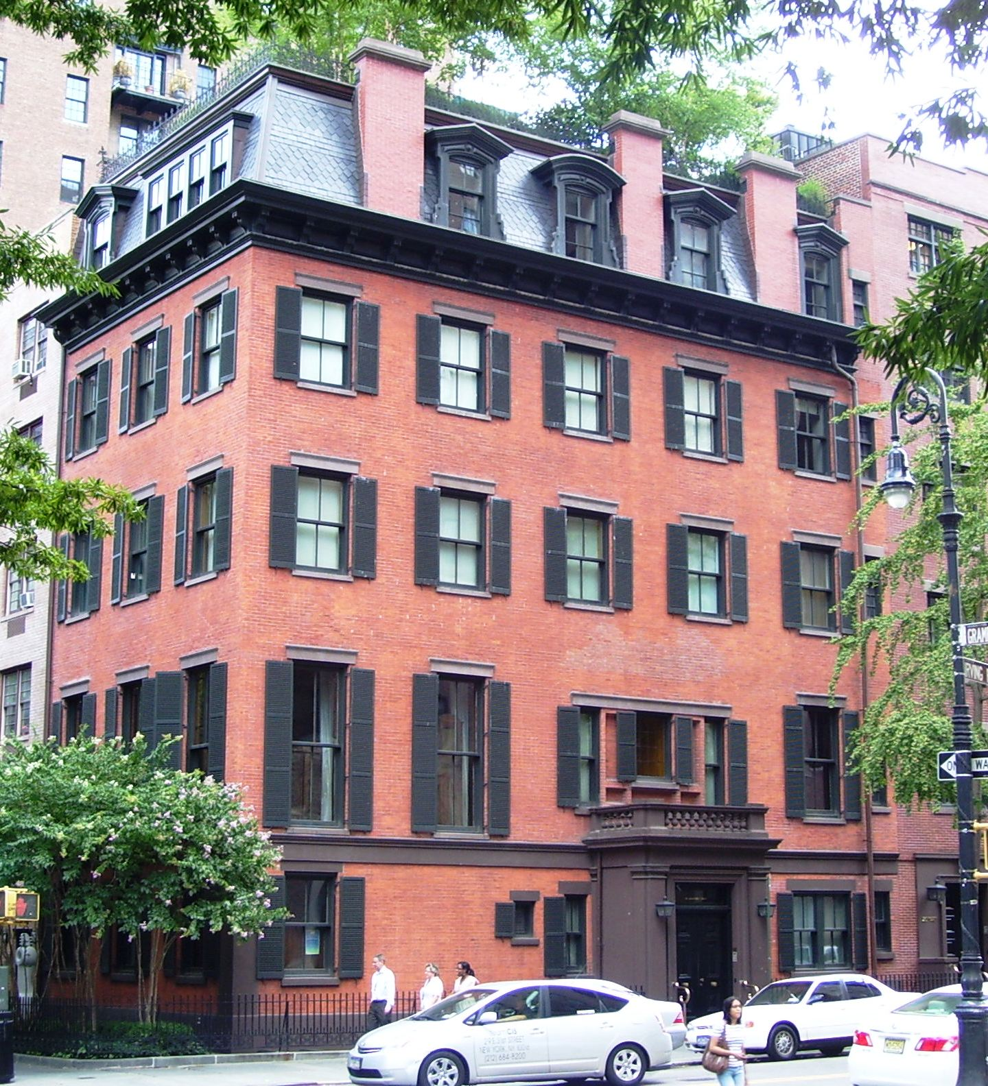 86 Irving Place (or 19 Gramercy Park South), on the corner of Gramecy Park South. Built in 1845 and later remodeled for Stuyvesant Fish, later owned by Benjamin Sonnenberg.